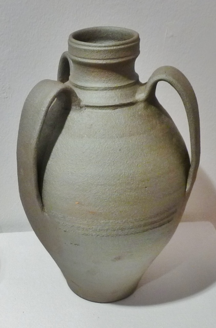 Traditional pottery (21st century) from Faro (Oviedo, Asturias), Spain.